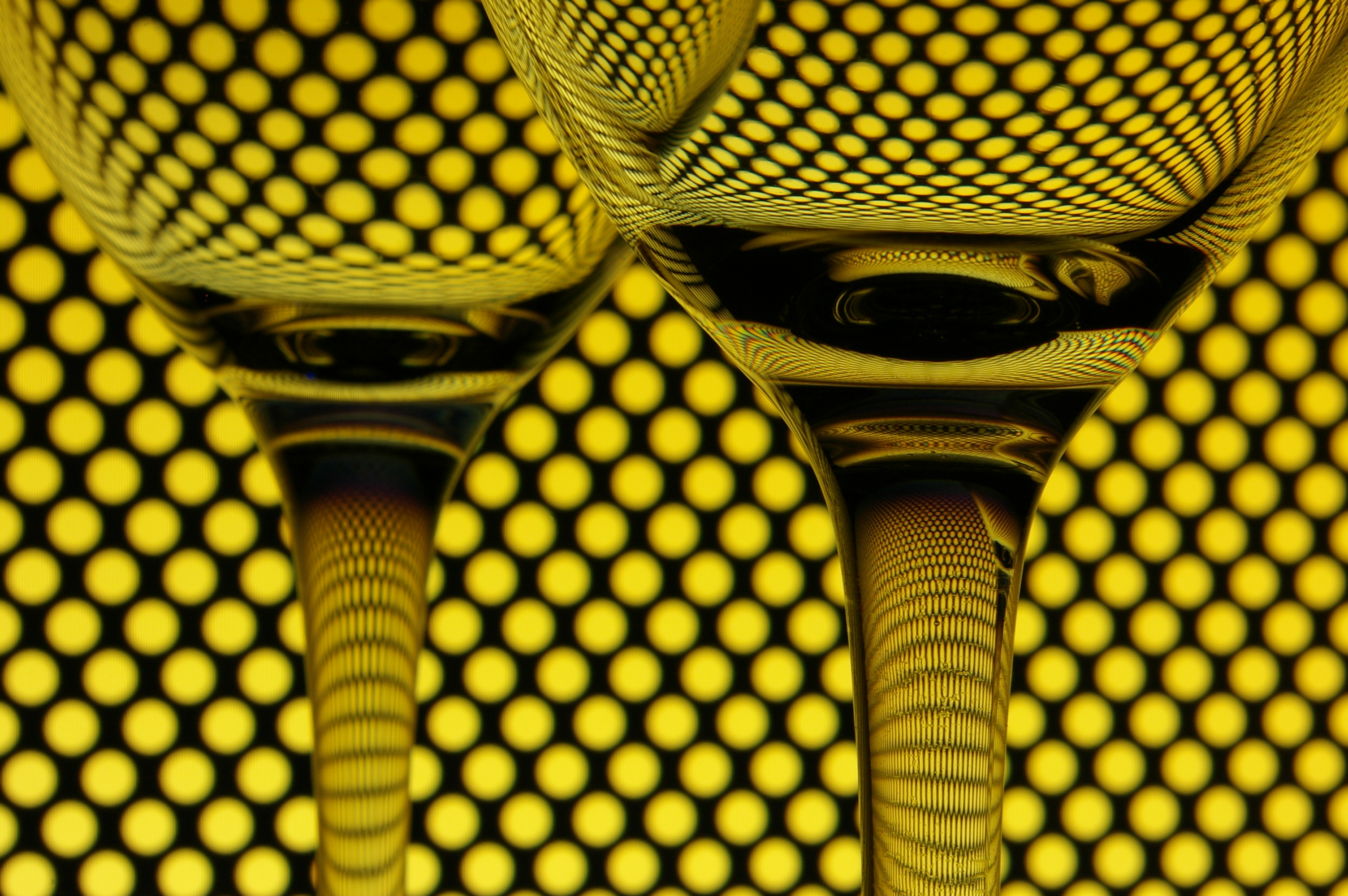 The background is a 22" LCD screen, with a tiled pattern I've made in Photoshop (here it is: Uniformity-bg.jpg). The two glasses are standing on a black surface, the whole room was plunged in a dark atmosphere.